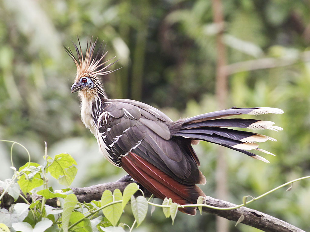 A Hoatzin near Amazonia Lodge, Manu National Park, Peru.